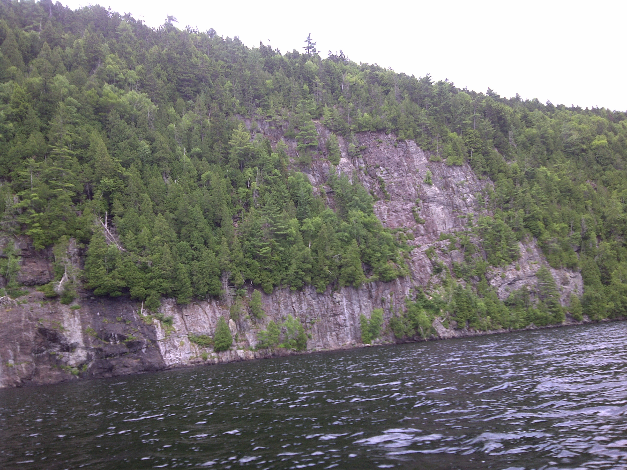 Lake Missionary-Nord (Quebec, Canada). North bank cliff of the lake.